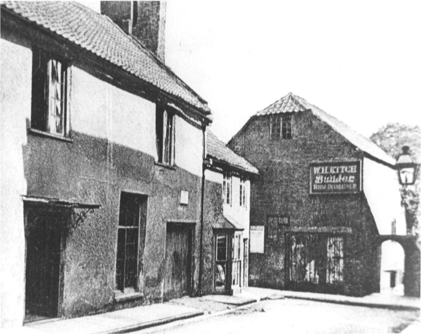 The mill about 1920, when it was used by a builder as a workshop. The building to the left became the Blake Museum.